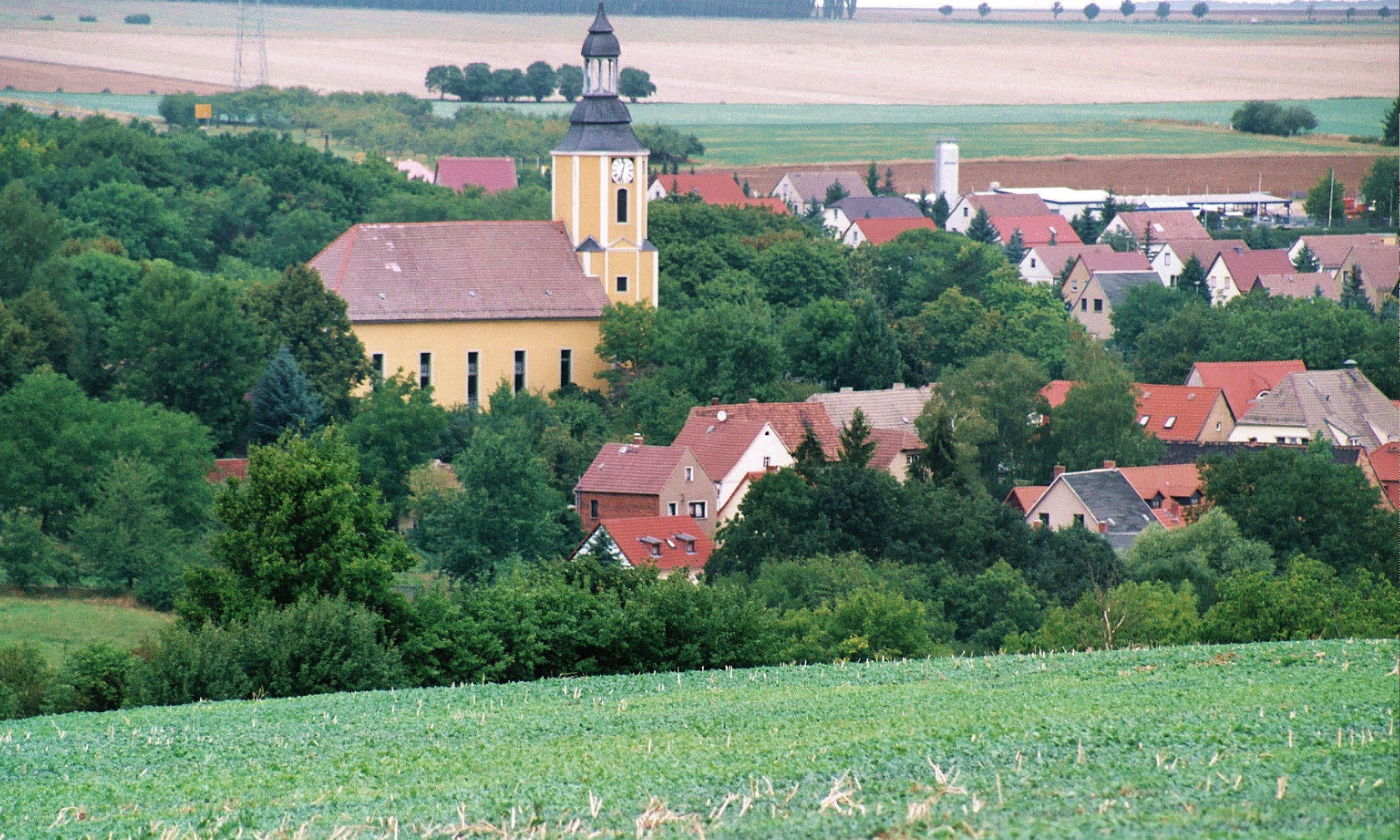 Schkölen, the town church